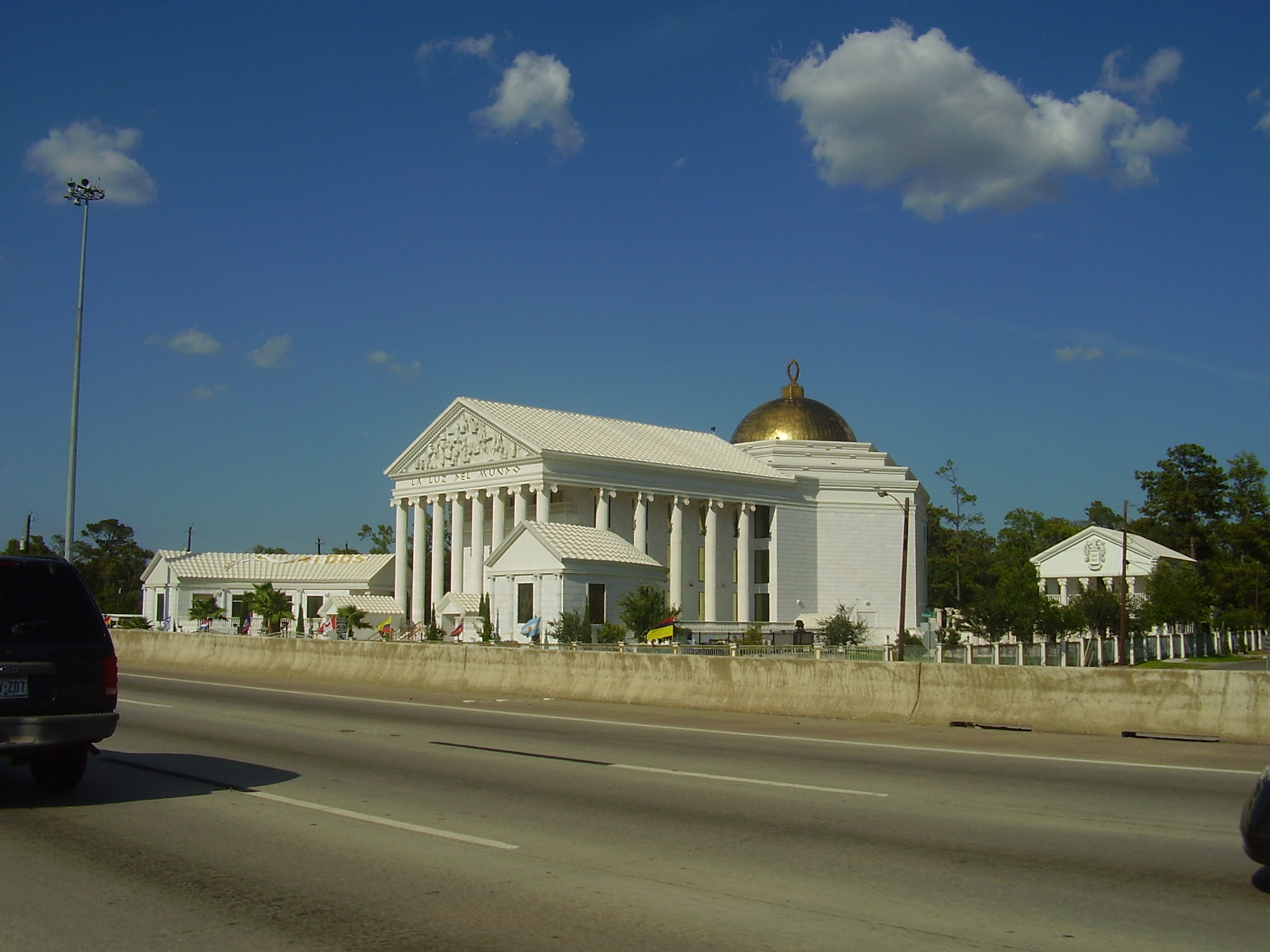 Temple of La Luz del Mundo at 8312 Eastex Freeway, Houston, TX, USA.